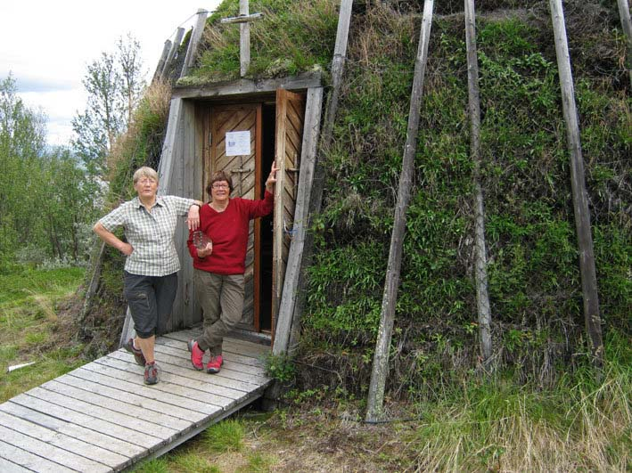 Kyrkovärdinnorna Bitte och Anka förbereder inför kyrkhelg.